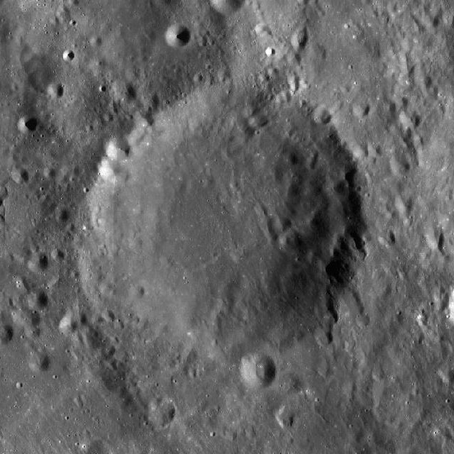 Chaucer crater, on the far side of the moon. Mosaic of LRO WAC images.